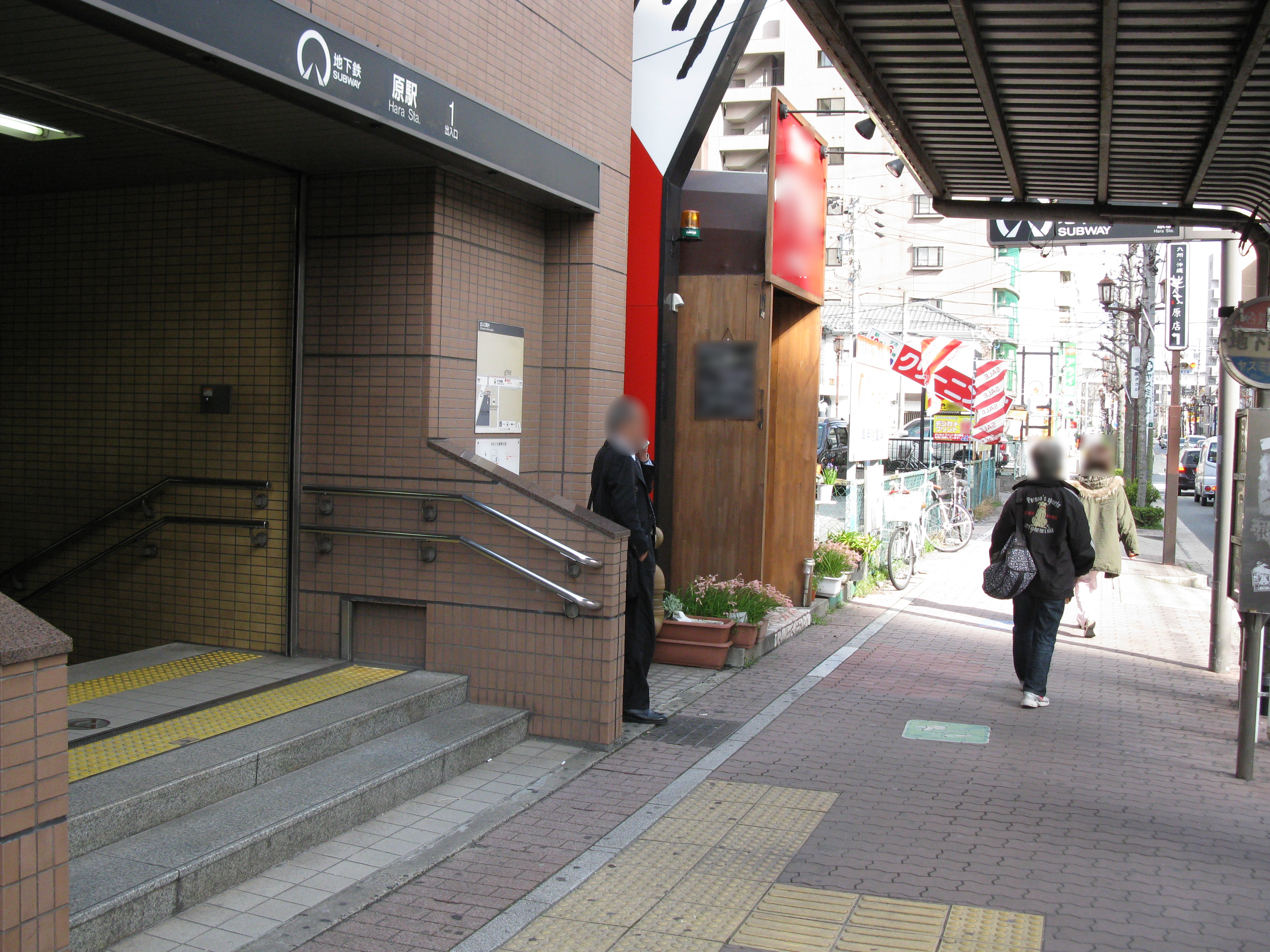 Hara Station no.1 entrance (Nagoya Municipal Subway Tsurumai Line)